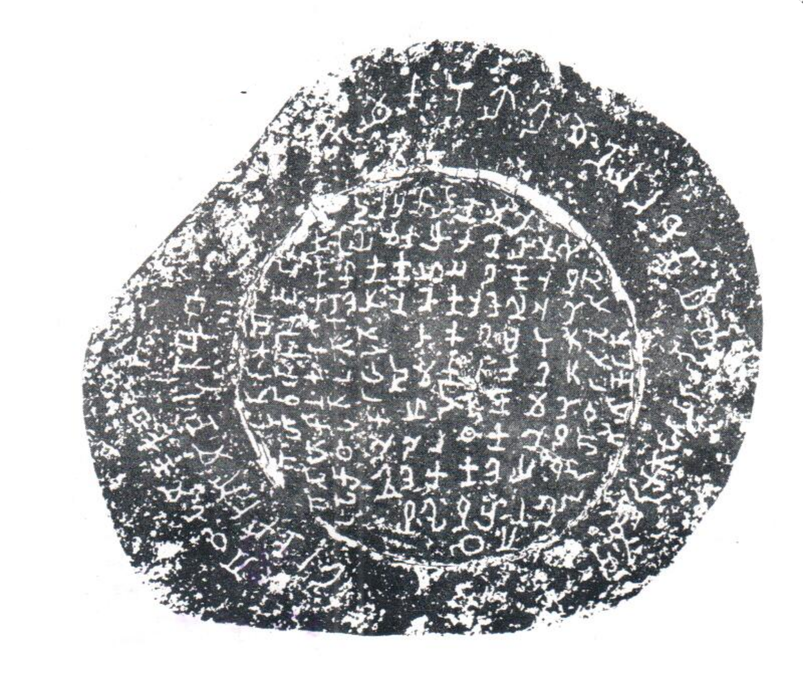 The 2nd stone inscription excavated at Bhattiprolu believed to be from 3rd century BCE.